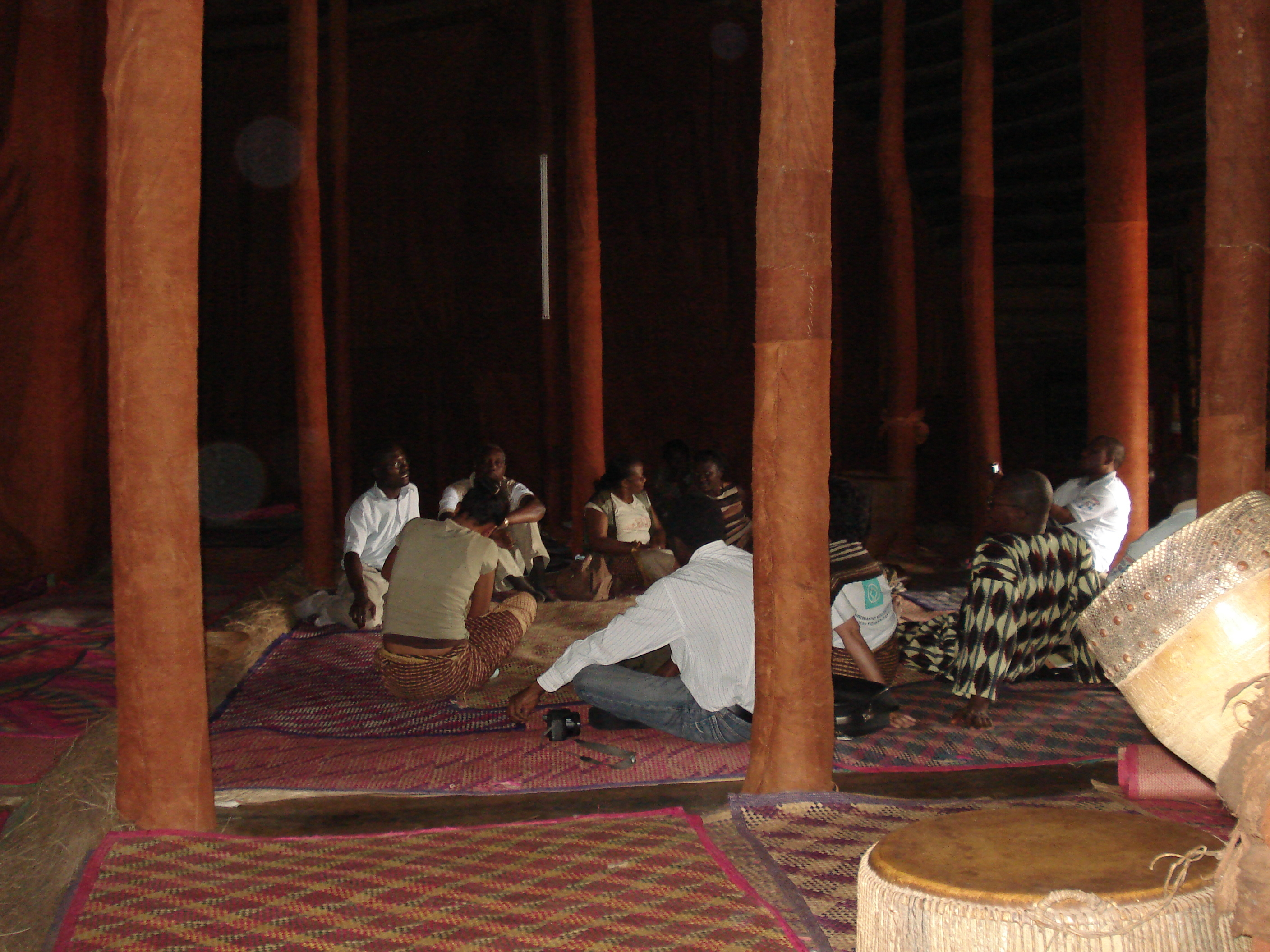 Tombs of Buganda Kings at Kasubi (Uganda)